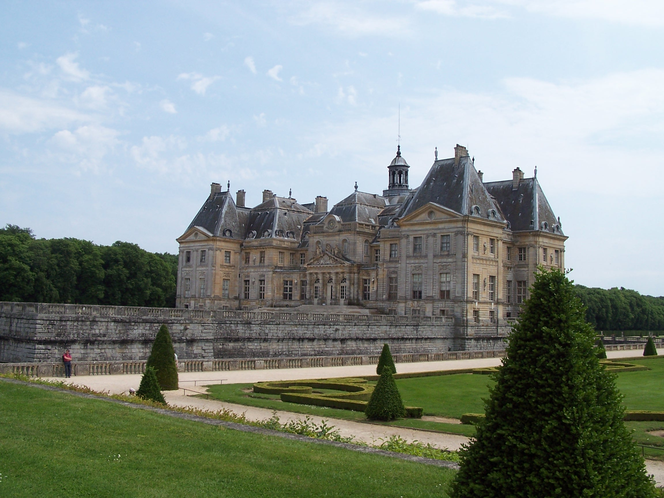 Castle of Vaux-le-Vicomte, France